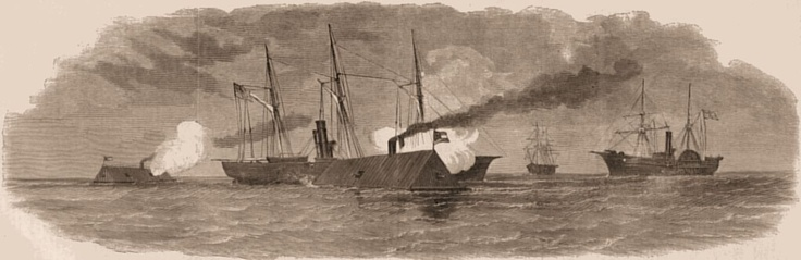 The Rebel Rams engaging our Blockading Fleet off Charleston, South Carolina, January 31, 1863. Depicting CSS Chicora and CSS Palmetto State attacking USS Mercedita, with USS Keystone State at right[1].